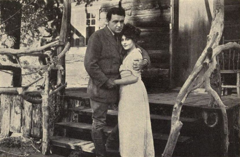 Still from the American drama film The Call of the Cumberlands (1916) with Dustin Farnum and Winifred Kingston, facing page 292 of the 1916 edition of the Charles Neville Buck novel. Caption: Together again.